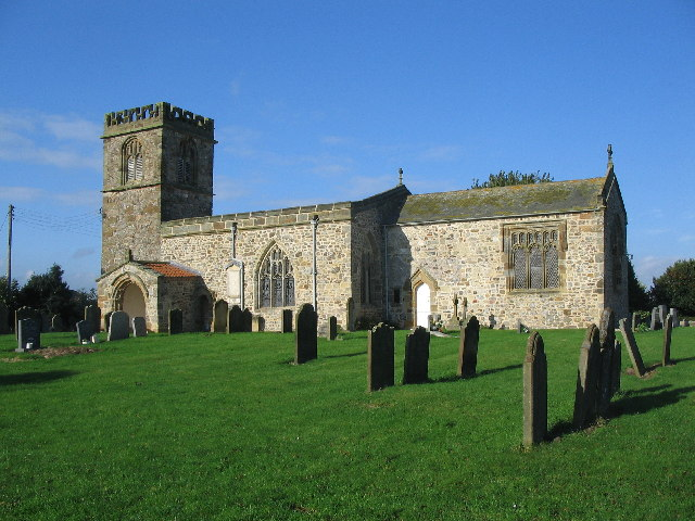 All Saints Church, Barmston in the East Riding of Yorkshire, England.The southern aspect of All Saints church, Barmston, viewed looking north across the graveyard.